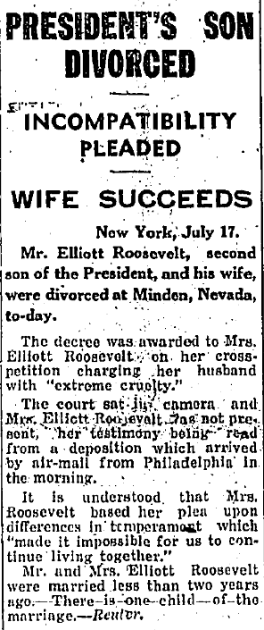 Elizabeth Browning Donner and Elliott Roosevelt divorced on 17 July 1933.